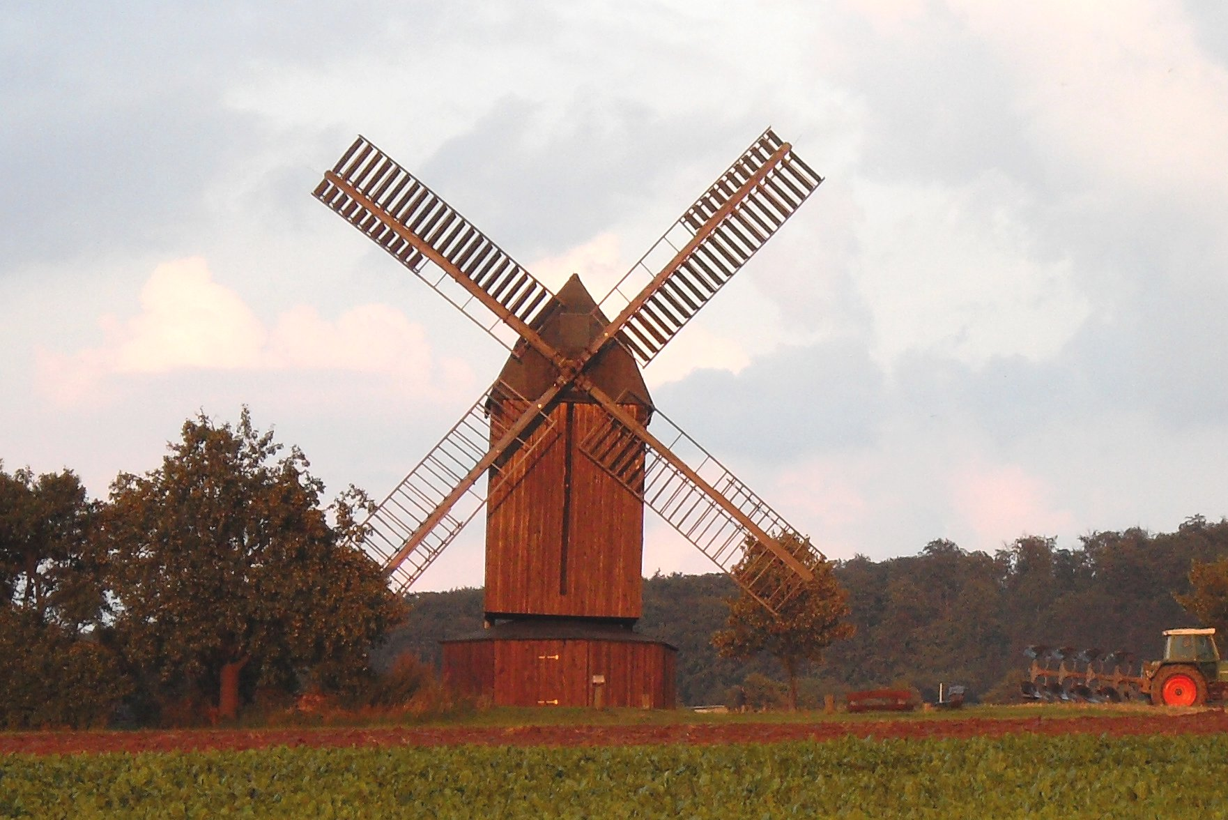 windmill in Abbenrode, Lower Saxony, Germany